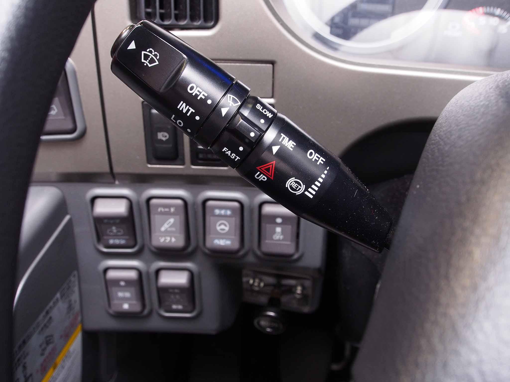 Left steering column of Hino Selega RU1E series. Front wind shield wipers Wiper interval control Hazard lamp Exhaust brake and retarder